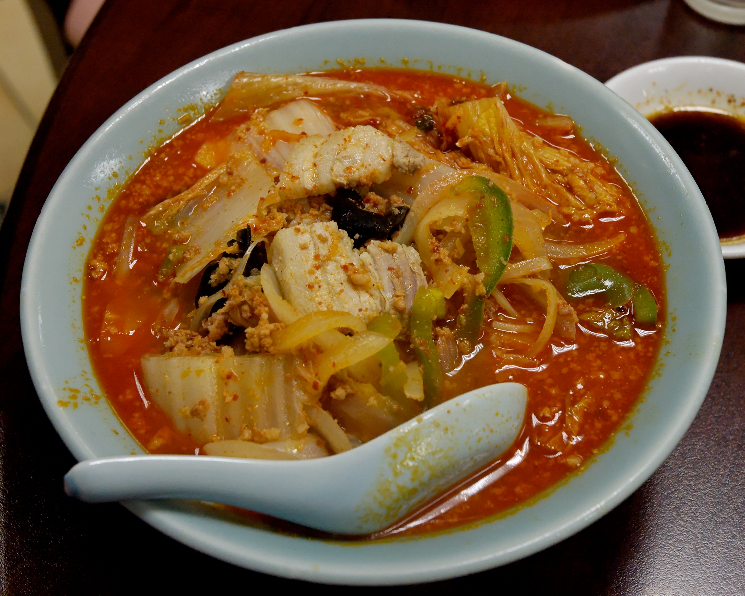 Kimchi ramen served in a ramen joint in Paris.